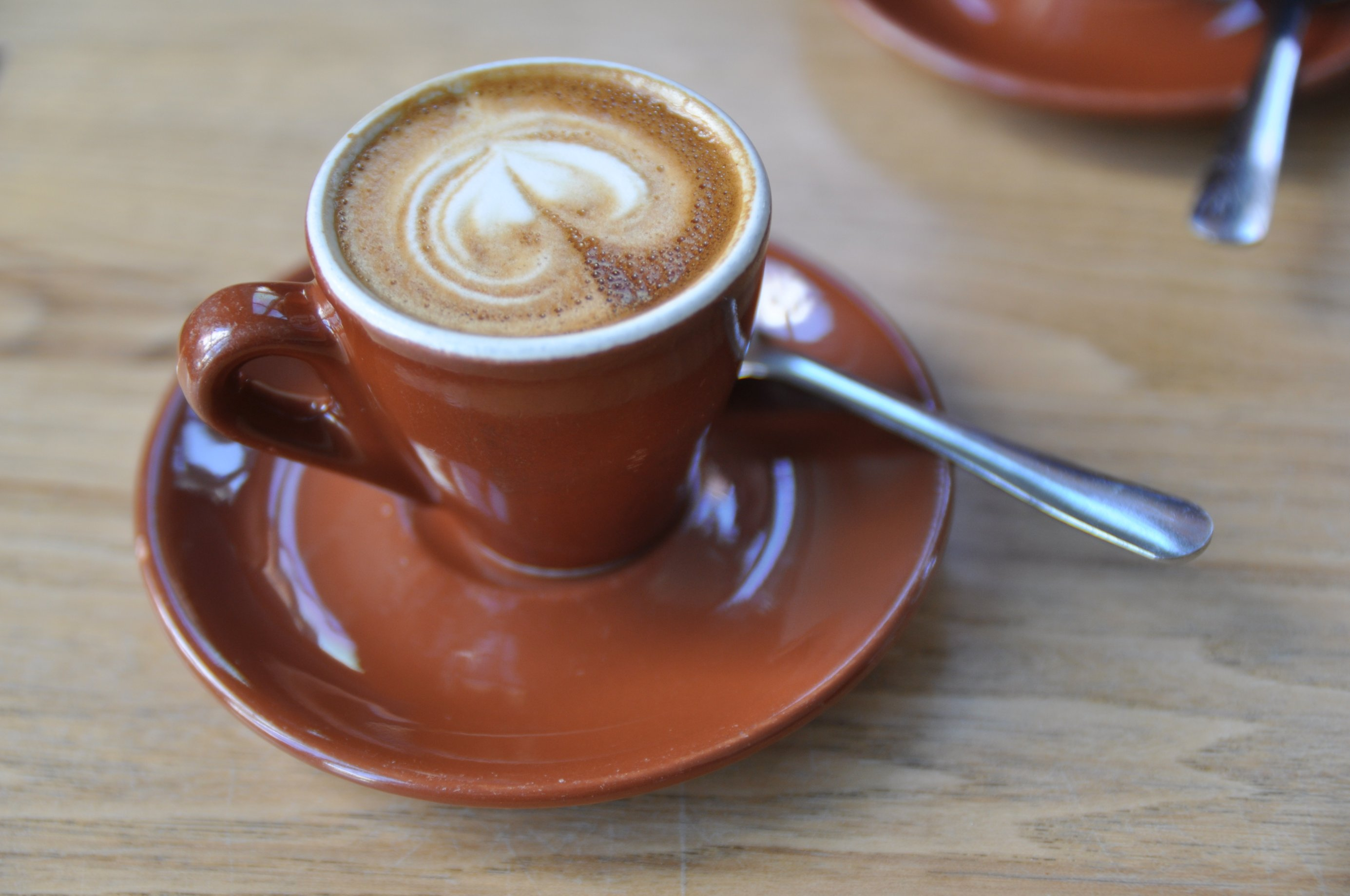 Macchiato with coffee art at the Blue Bottle Cafe in San Francisco.